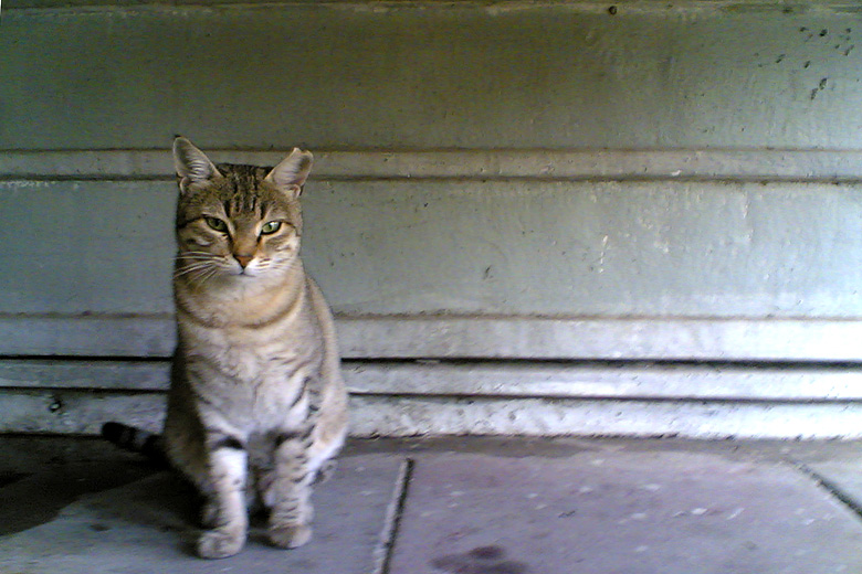 Street cat, Israel